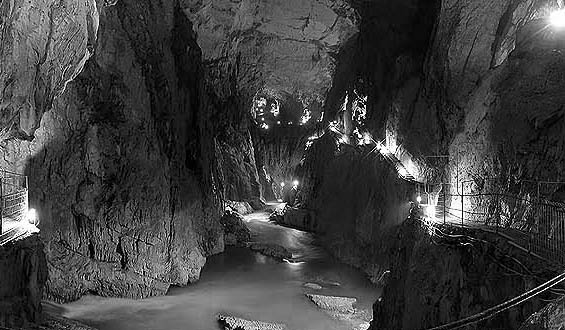 Skocjan Caves Subterranean flow of the Reka River in Škocjanske jame (cave system)